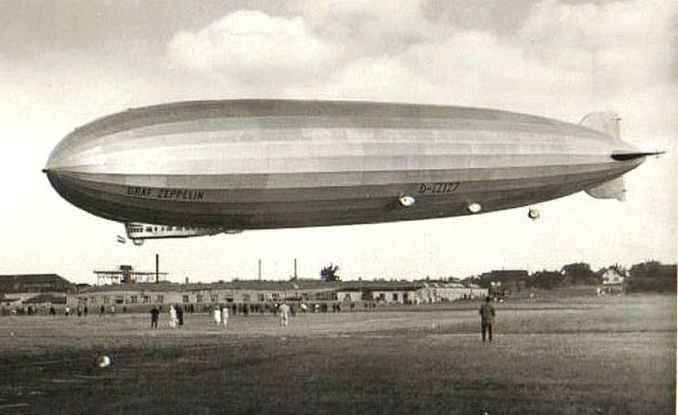 Photo of Graf Zeppelin LZ-127